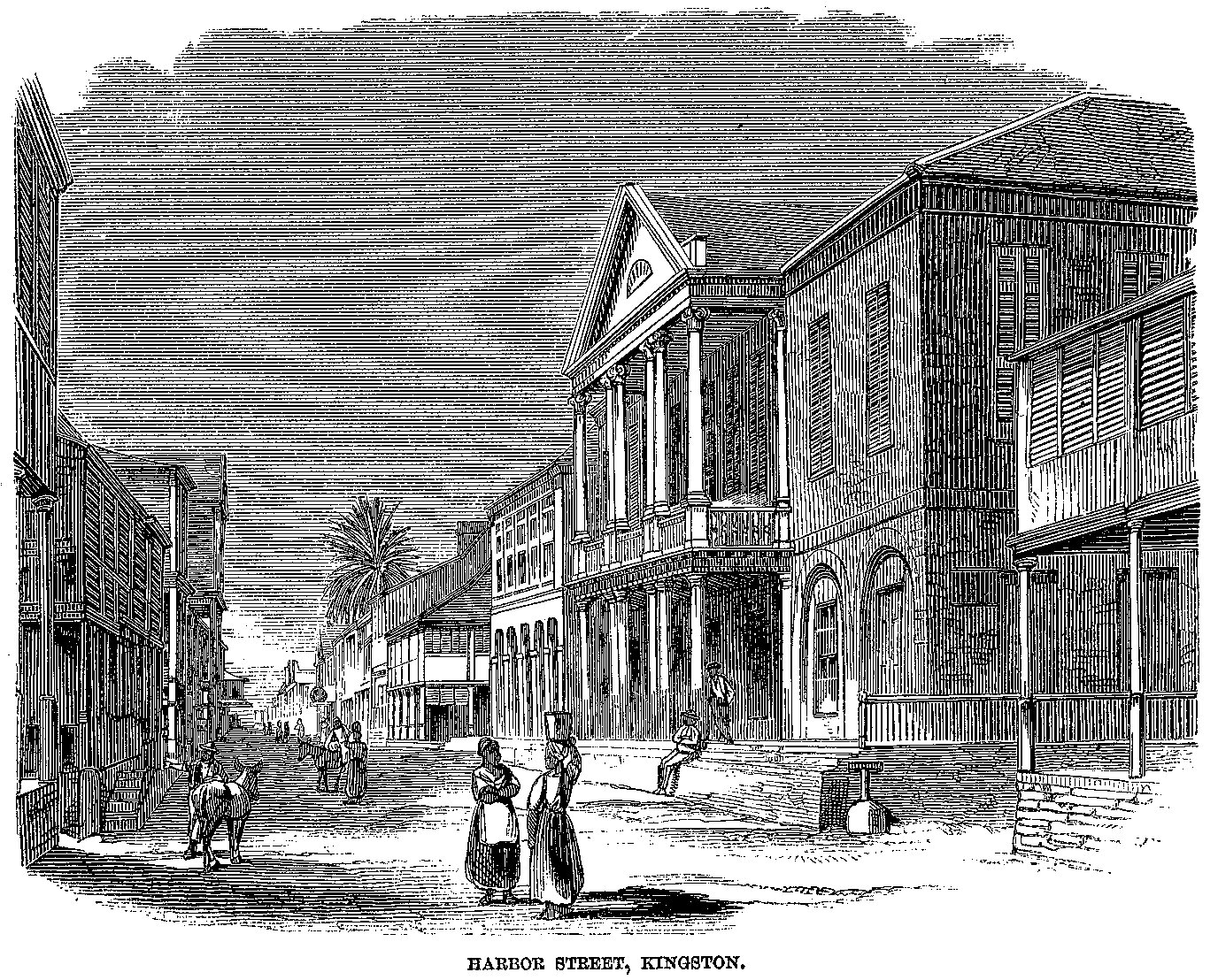 "Harbor Street, Kingston", illustration of article "Cast-away in Jamaica" by W.E. Sewell, in Harper's Monthly Magazine, January 1861.